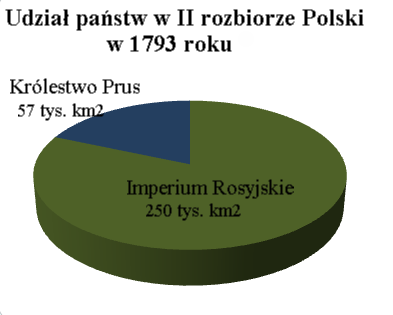 Second Partition of Poland share